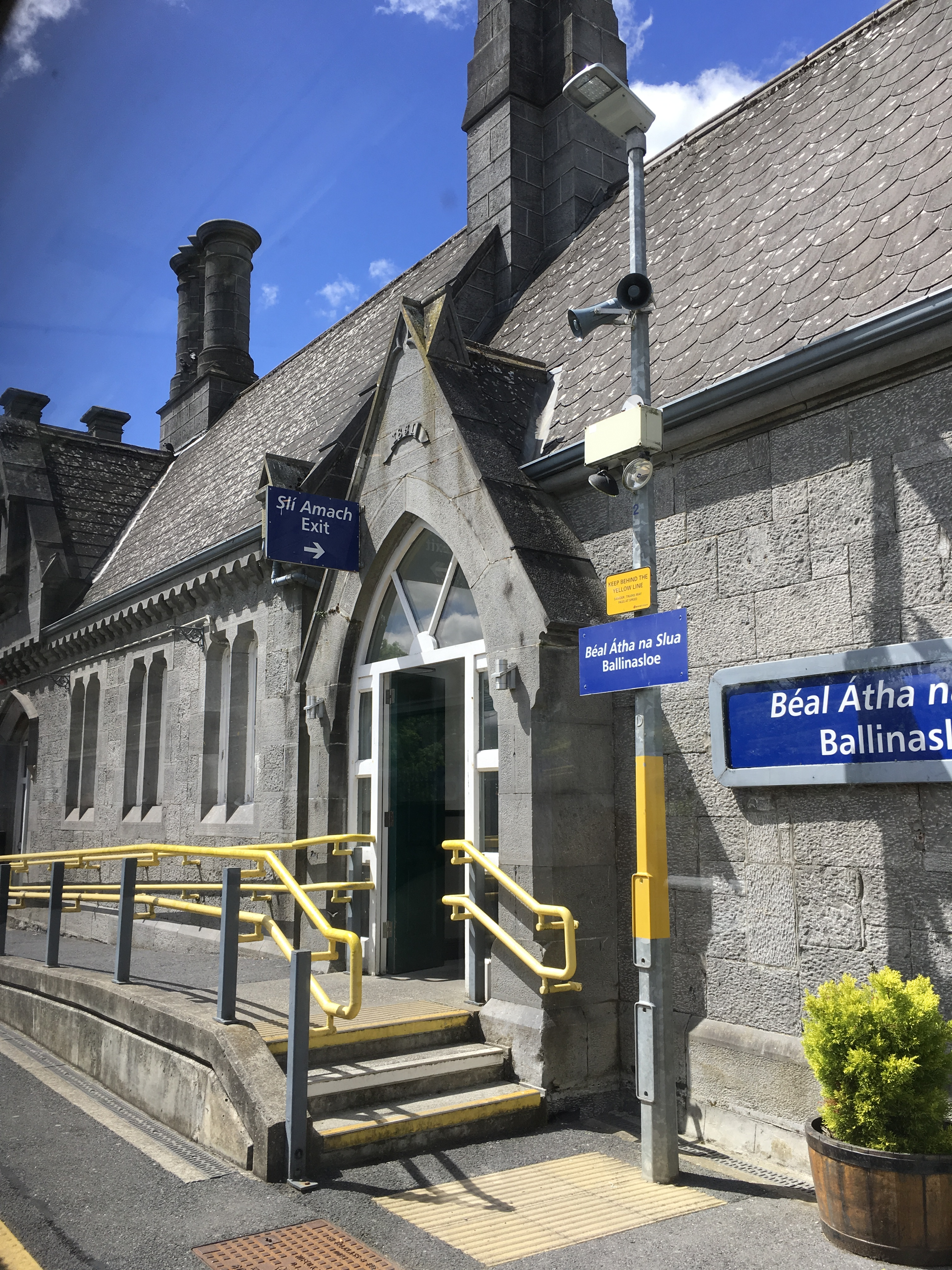 Ballinasloe, Ballinasloe railway station. Wikidata has entry Q3968957 with data related to this item.